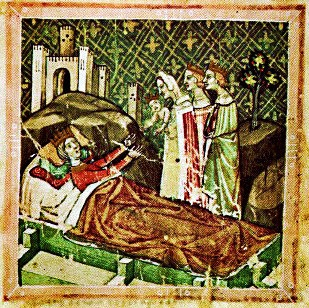 Louis I of Hungary and Poland